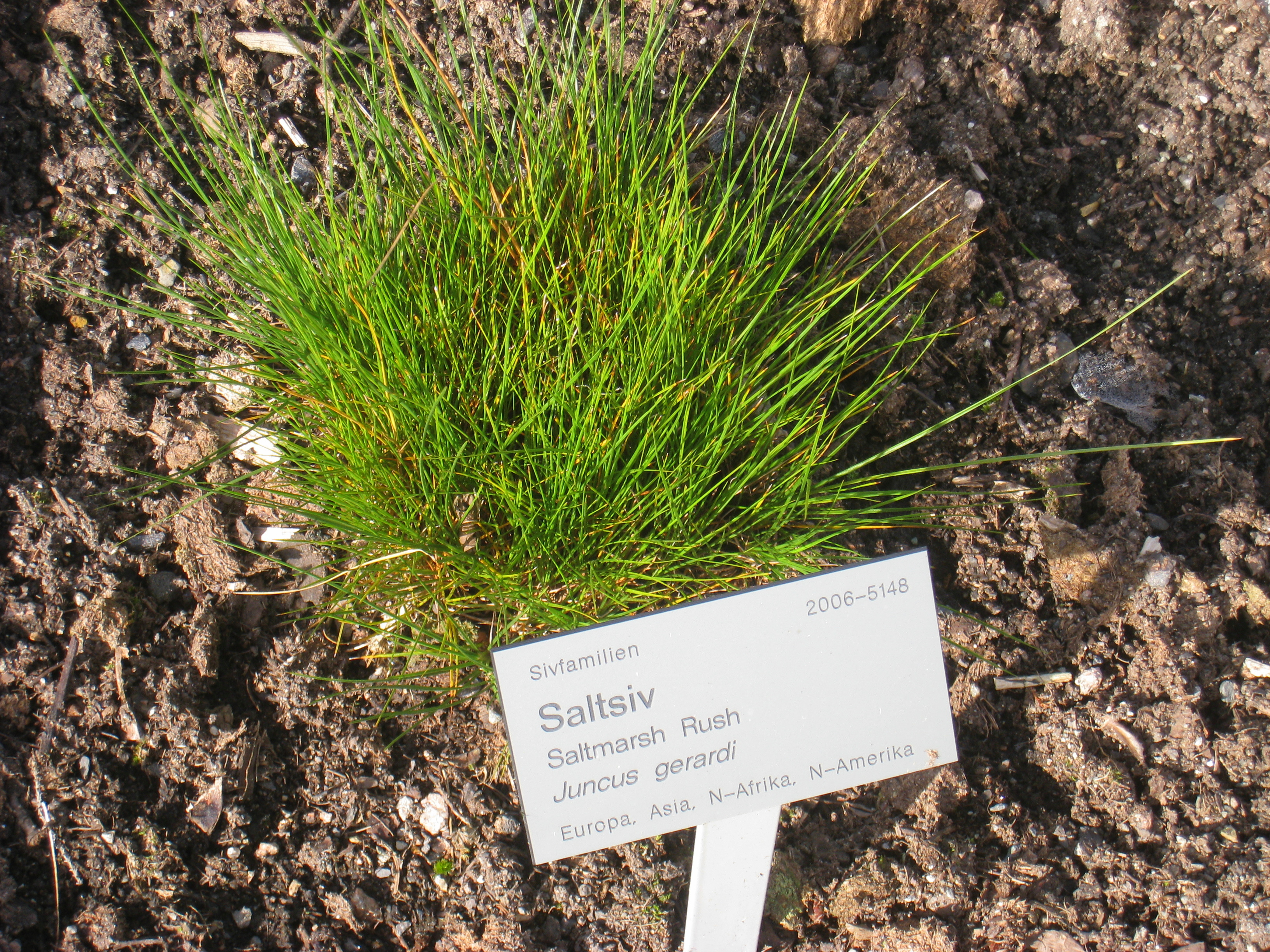 Saltmarsh Rush, Oslo Botanical Garden, Oslo, Norway